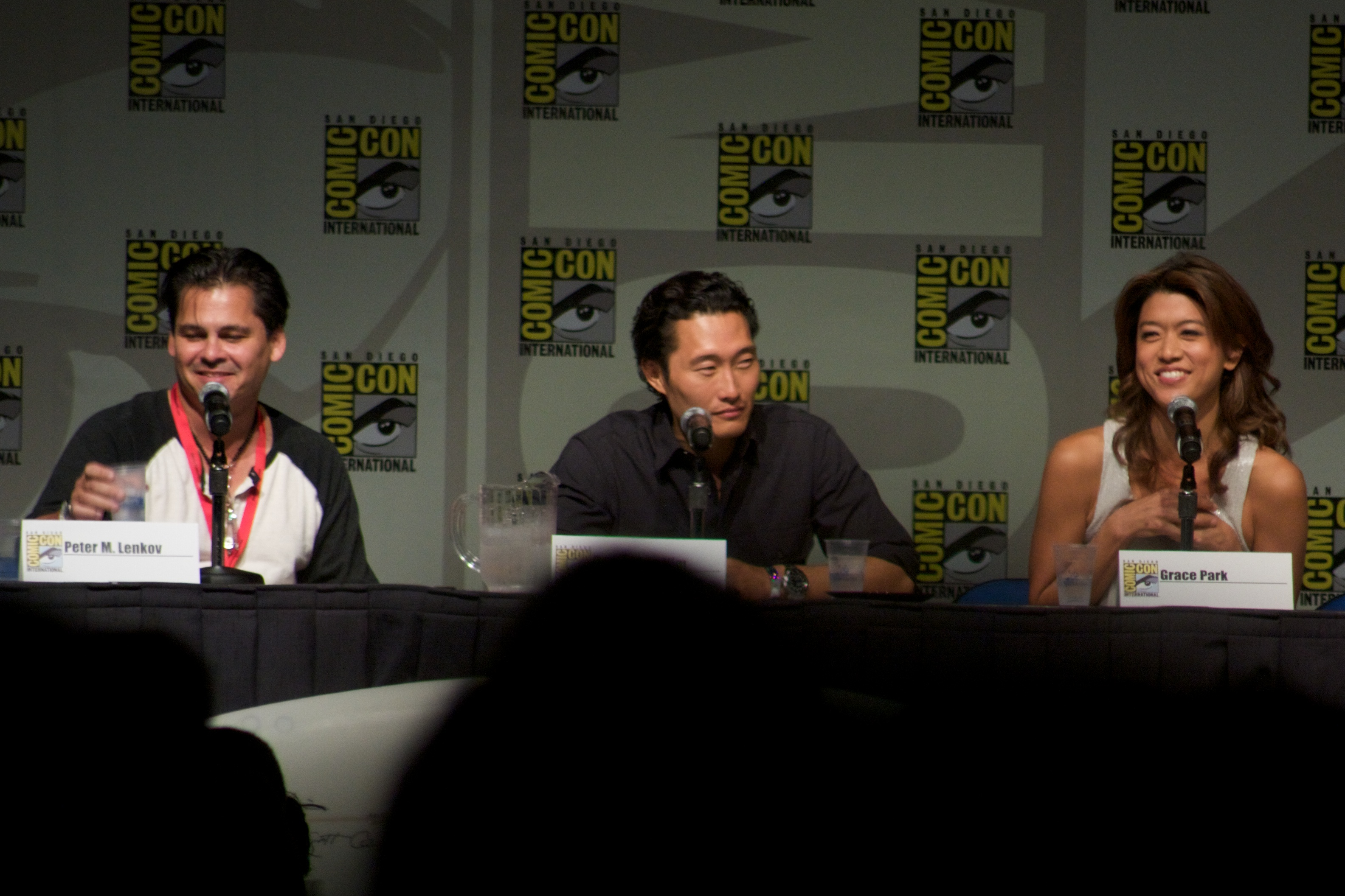 "Hawaii Five-0" Panel. Producer Peter M. Lenkov and actors Daniel Dae Kim and Grace Park at San Diego 2010 Comic-Con International.